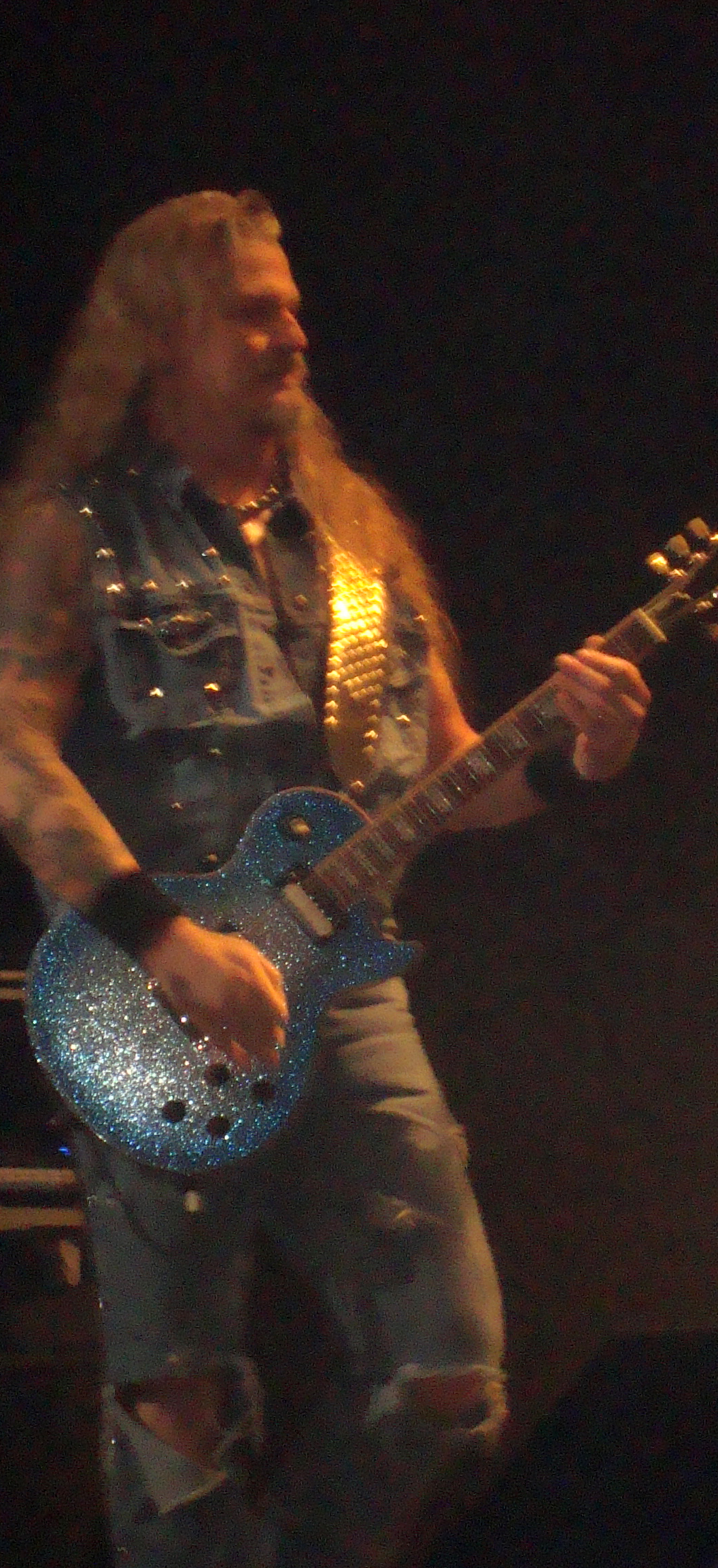 Jon Schaffer during the show at Tyrol in Stockholm, Sweden.